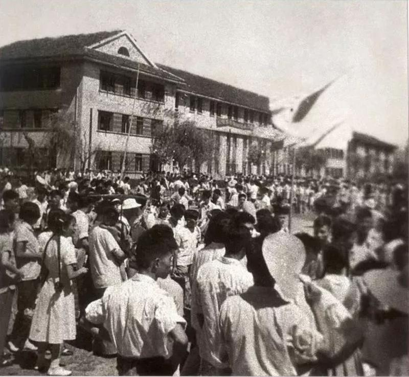 The first Jiao Tong University Students and Teachers started to move to Xi'an in 1956. 中文（中国大陆）: 1956年，第一批交通大学师生做好西迁西安的准备。